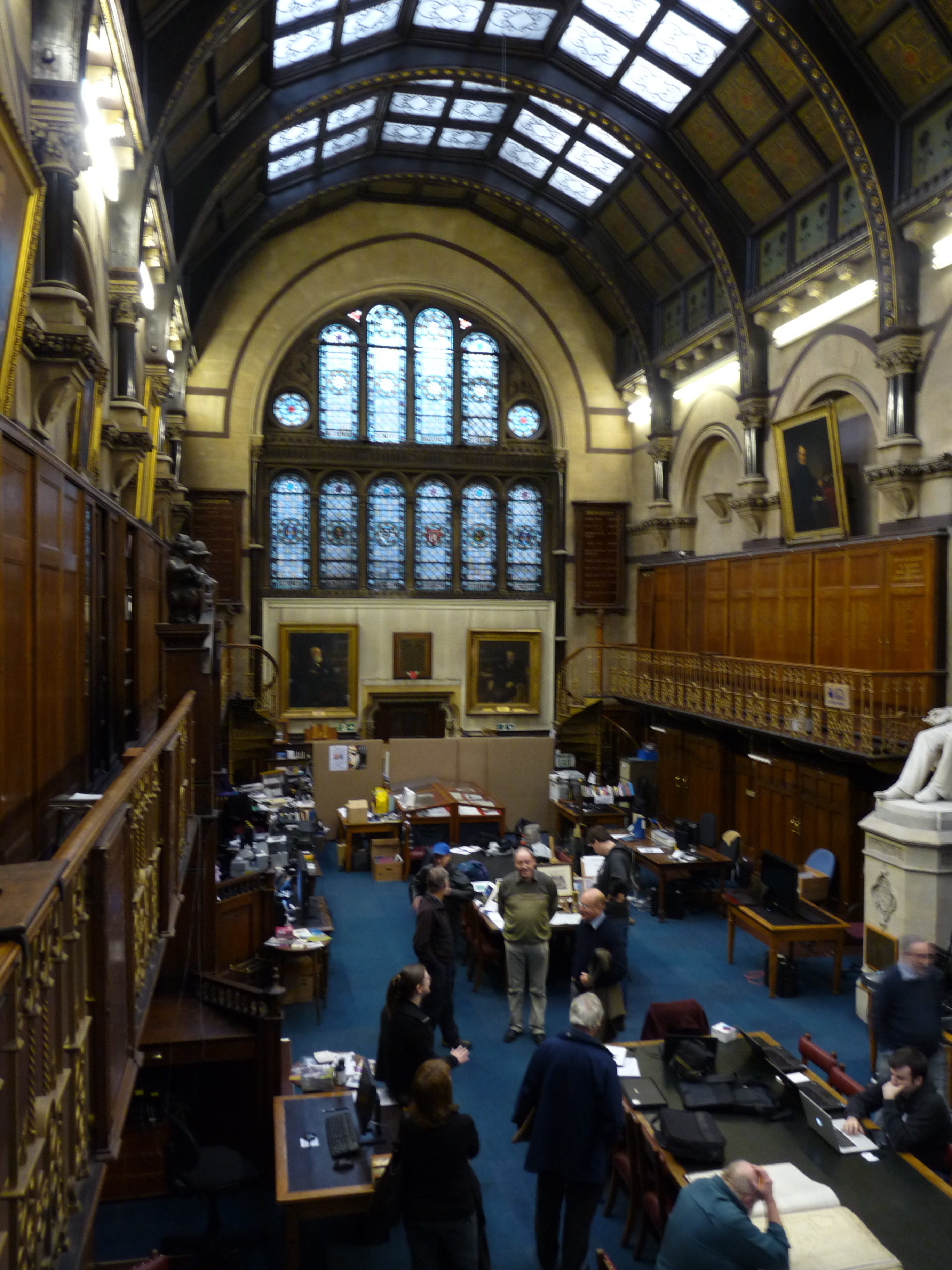 Attendees at the Wikimedia UK-organised editathon assemble in the library of the North of England Institute of Mining and Mechanical Engineers in the Neville Hall and Wood Memorial Hall.